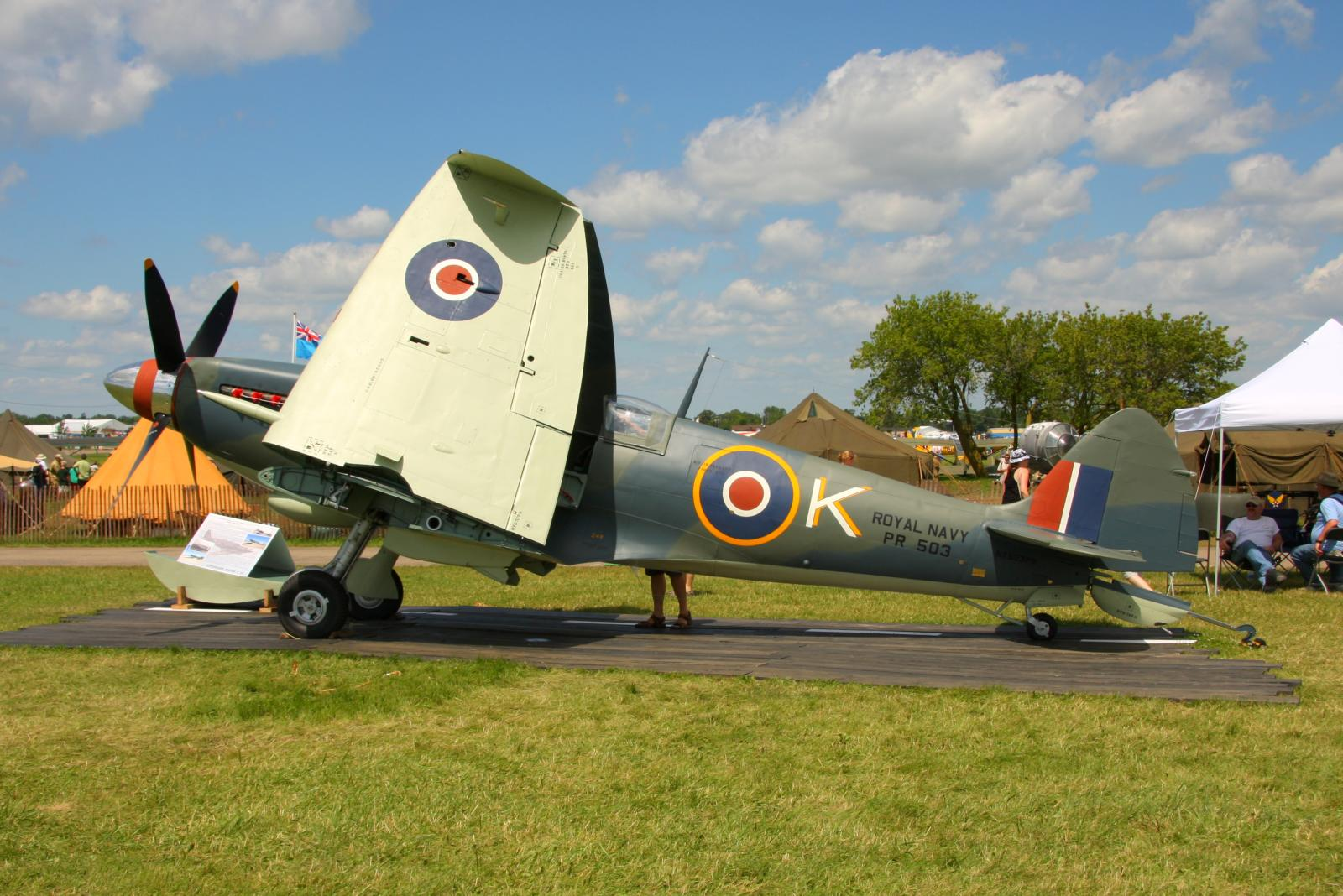 Supermarine Seafire PR503, at the 2010 Oshkosh Air Show.